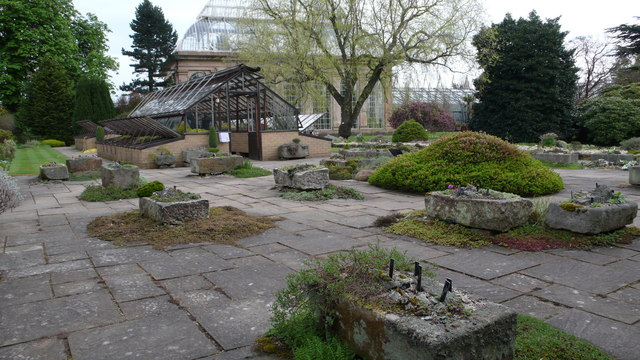 Alpine Garden, Royal Botanic Garden of Edinburgh Looking to the troughs of the alpine garden, with the glasshouses in the background.